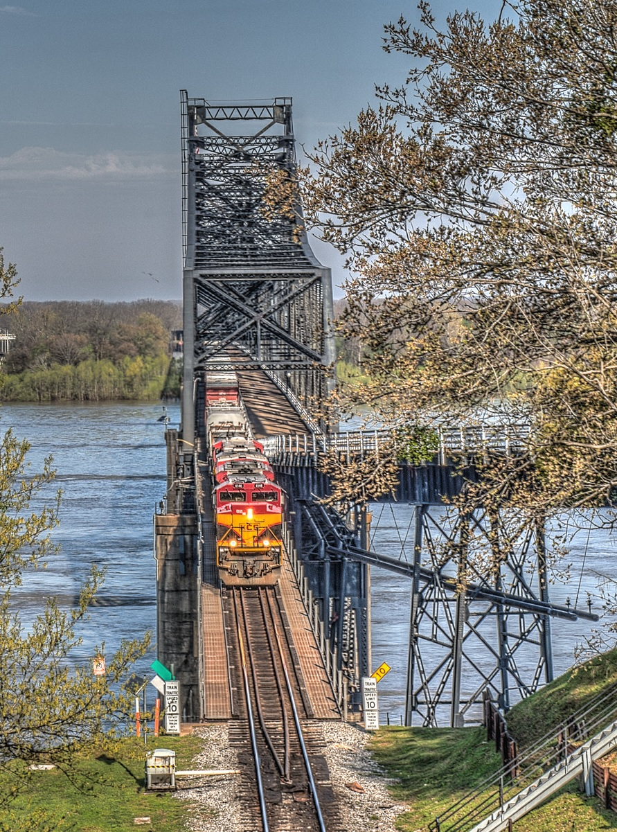 Old Vicksburg Bridge from the Mississippi Welcome Center